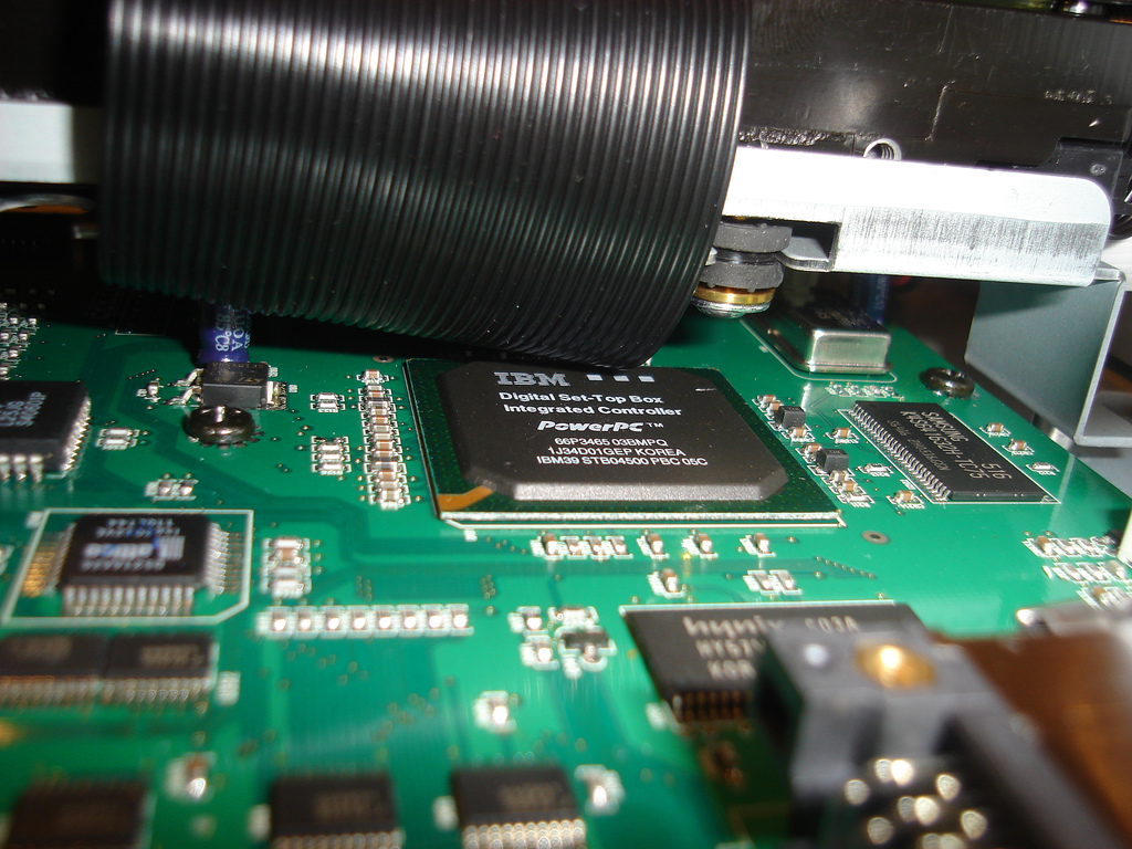 IBM STB04500 a PowerPC based set-top-box processor in a "Dilog DT 550".